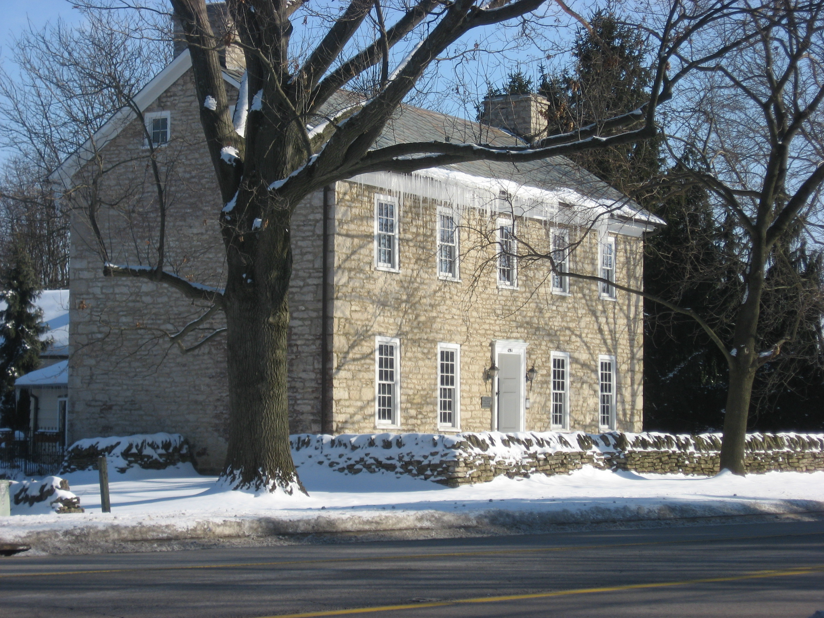 Front and northern side of the Samuel Davis House, located at 4264 Dublin Road south of Dublin in Franklin County, Ohio, United States. Built in 1816, it is listed on the National Register of Historic Places.